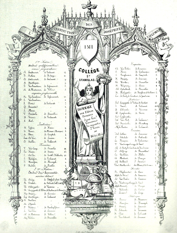 Scan of old school report Stanislas College Tienen, d.d. approx. 1850